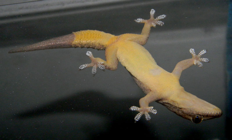 Ventral (upside down) view of an Asian House Gecko